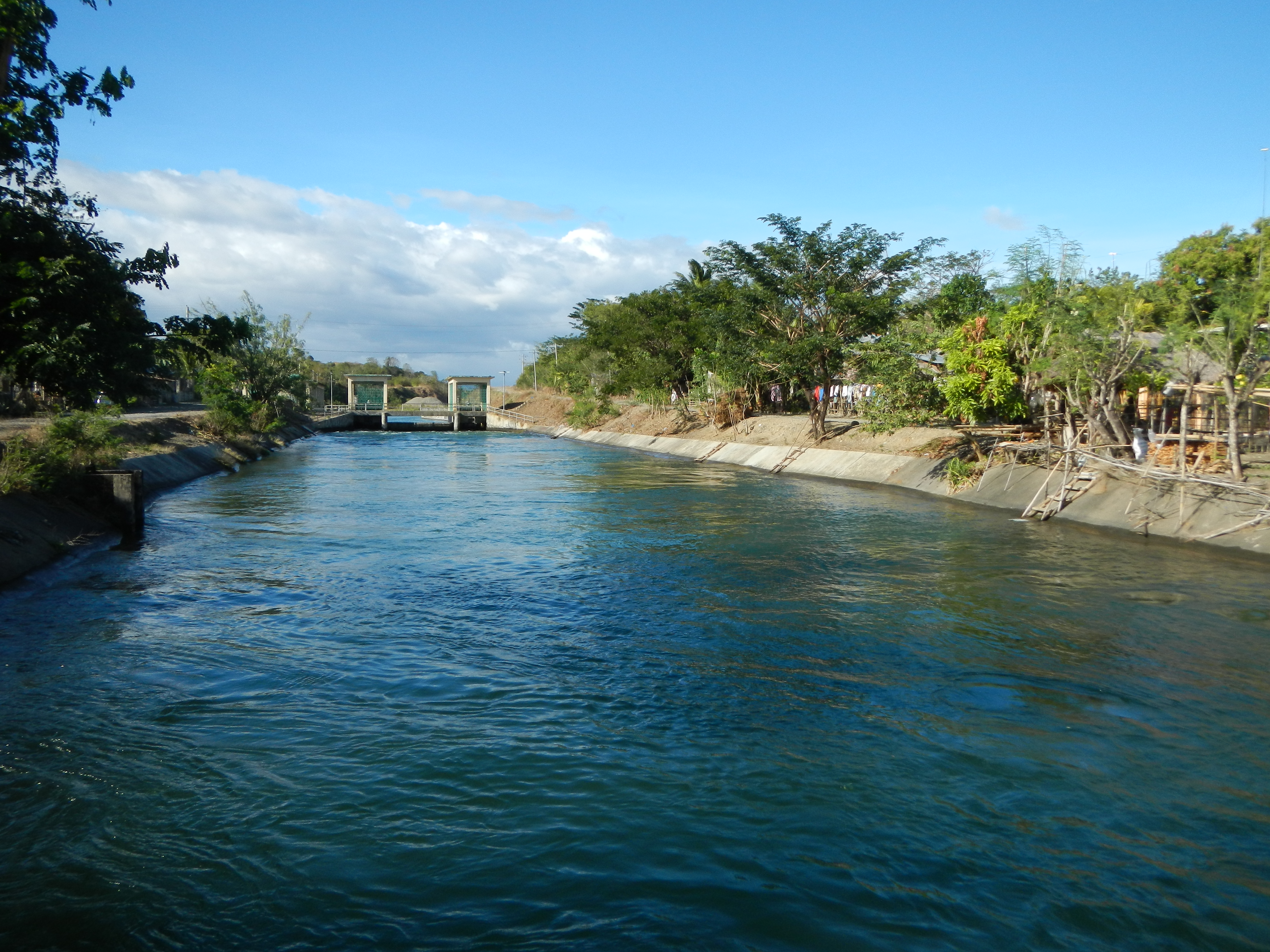 Casecnan Irrigation and Power Generation Project Rizal, Nueva Ecija[1] The P6.75-B Casecnan Multi-purpose Irrigation and Power Project in Nueva Ecija provides irrigation to more than 26,920 hectares of new farms in the municipalities of Munoz, Talugtog, Guimba, Cuyapo, and Nampicuan while at the same time generating some 140 megawatts of power for the Luzon grid that will supply cheap electricity to millions of people in Luzon including Metro Manila. The project is expected to increase the annual rice production to 834,000 metric tons of milled rice nationwide. With ample supply of water, fishponds in Central Luzon are expected to mushroom as farmers would be encourage to build fishponds for tilapia, bangus (milkfish) and catfish. It also gives additional irrigation water to the 55,000 hecatres of land in upper Pampanga River Integrated Irrigation System by rehabilitating and enlarging canals and structures, including the dredging and lining of major conveyances. [2] [3][4]